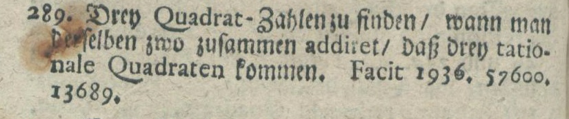 Task 289: Smallest Euler brick